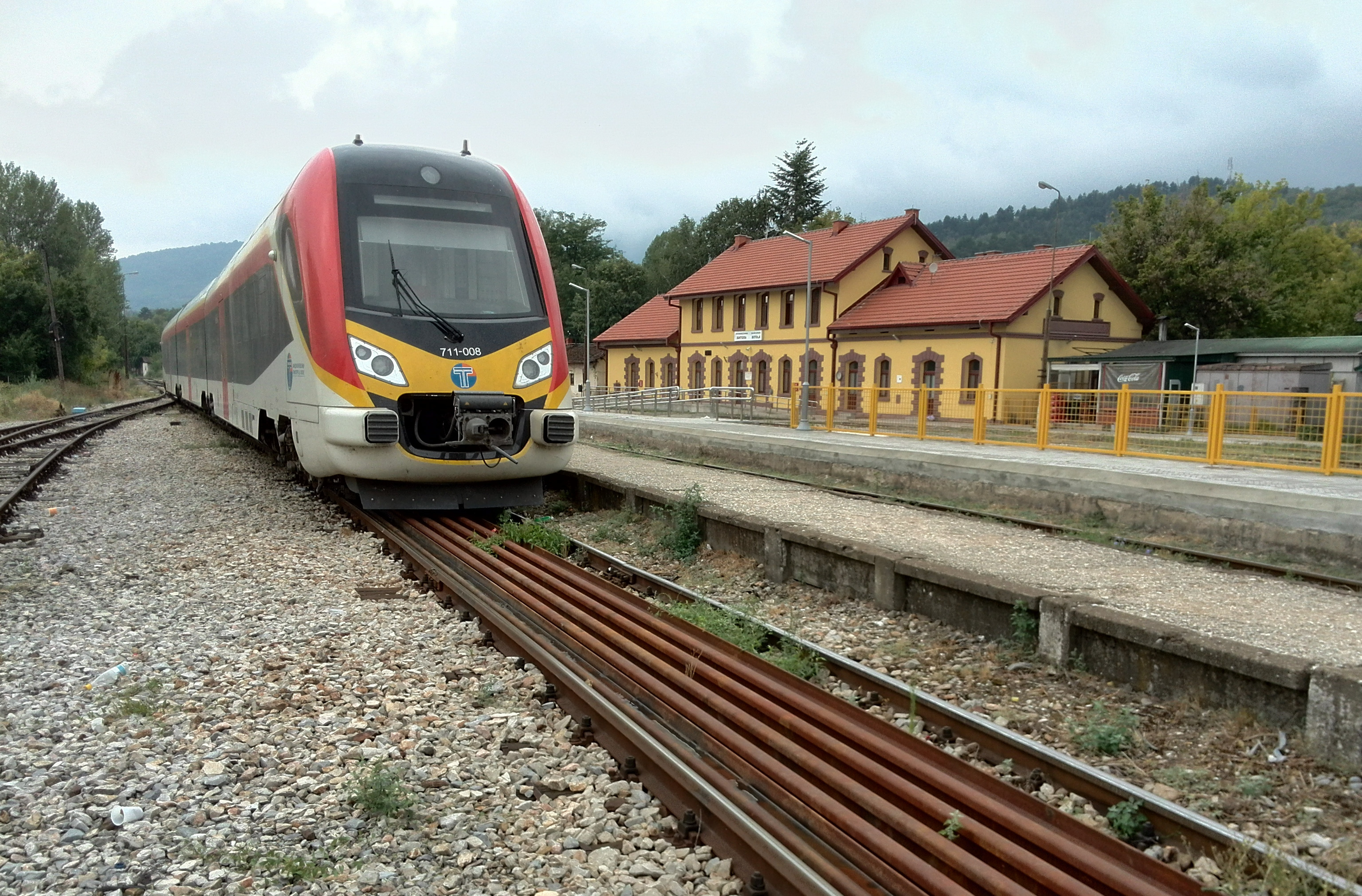 Bitola railway station Српски (ћирилица): Железничка станица Битољ, Република Македонија